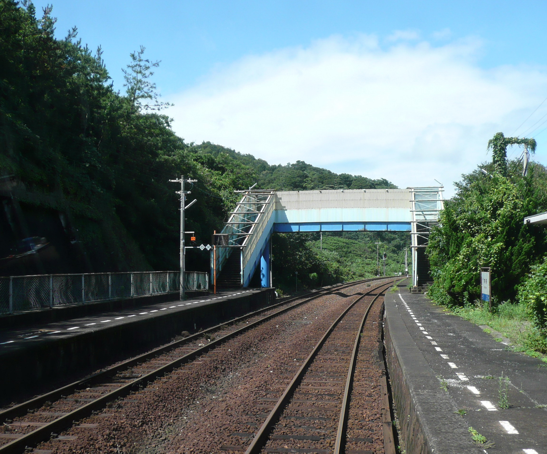 Kiyo Station platforms, view towards Higashi-Hagi and Nagatoshi